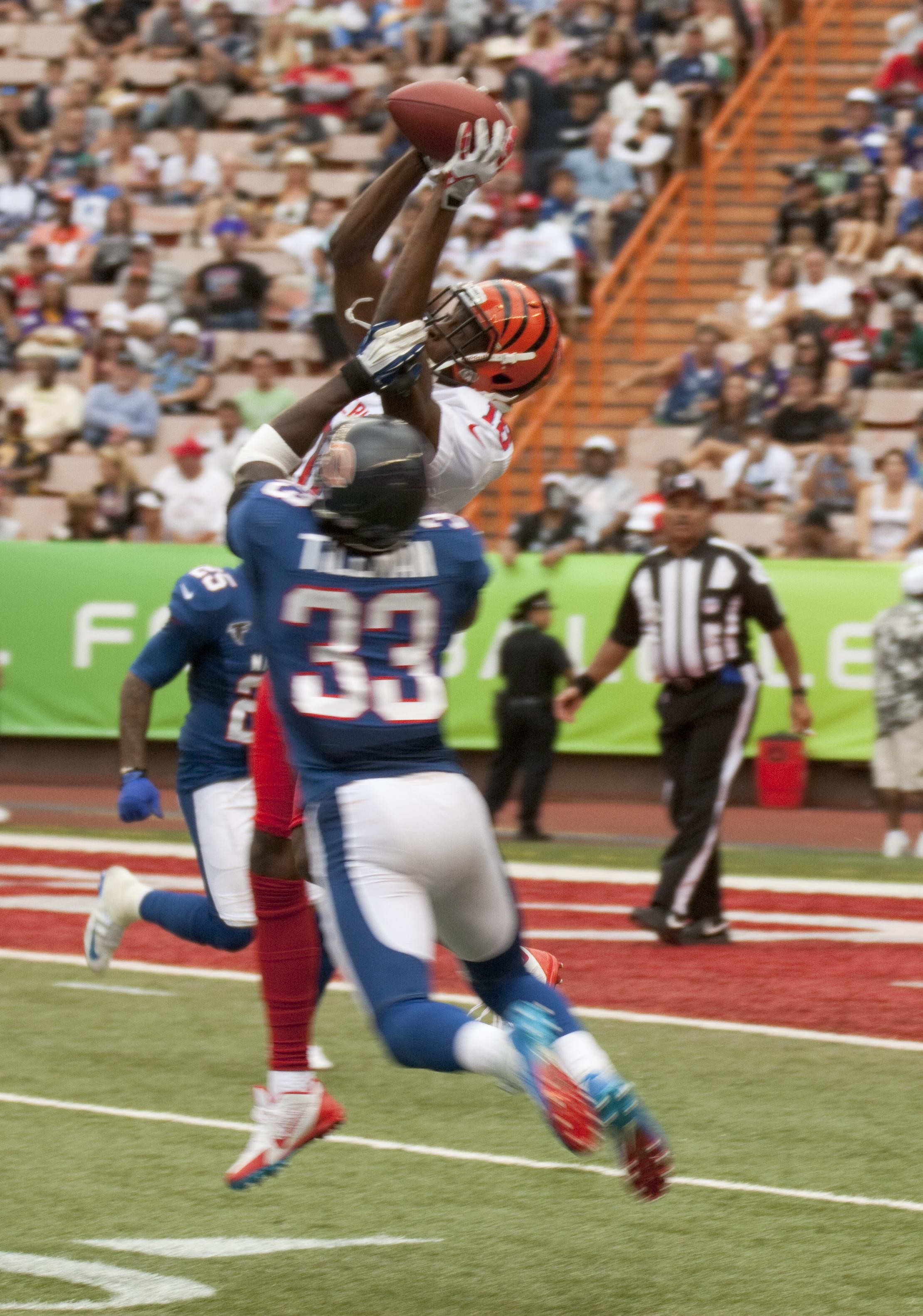 Cincinnati Bengals wide receiver A.J. Green makes a jumping catch as Chicago Bears cornerback Charles Tillman tries to defend during the 2013 NFL Pro Bowl at Aloha Stadium, Jan. 27.